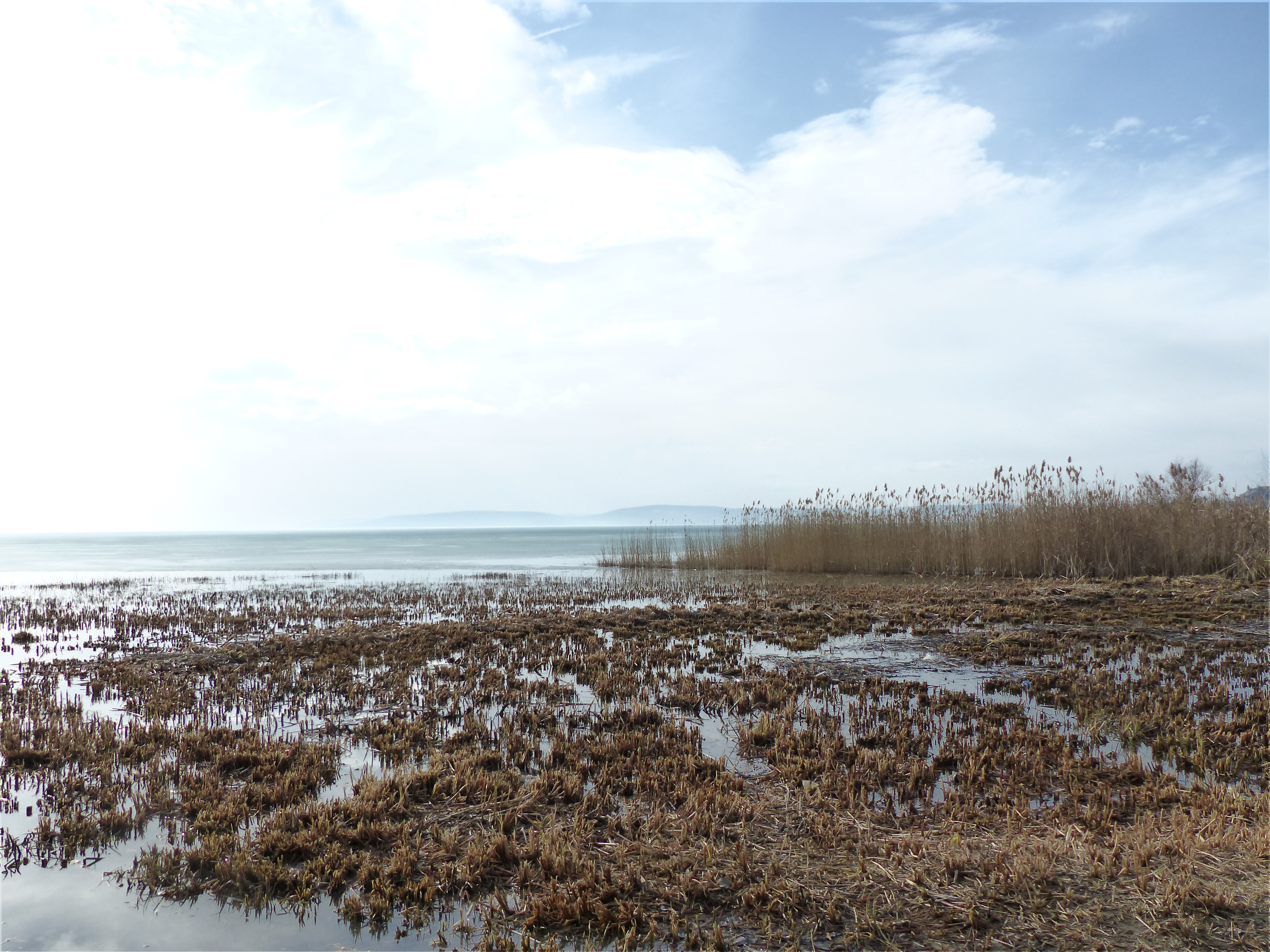 Ice Melting on Lake Balaton. Taken on the 27th of February, 2017. Alsórét, Balatonkenese, Hungary. After cane cutting.